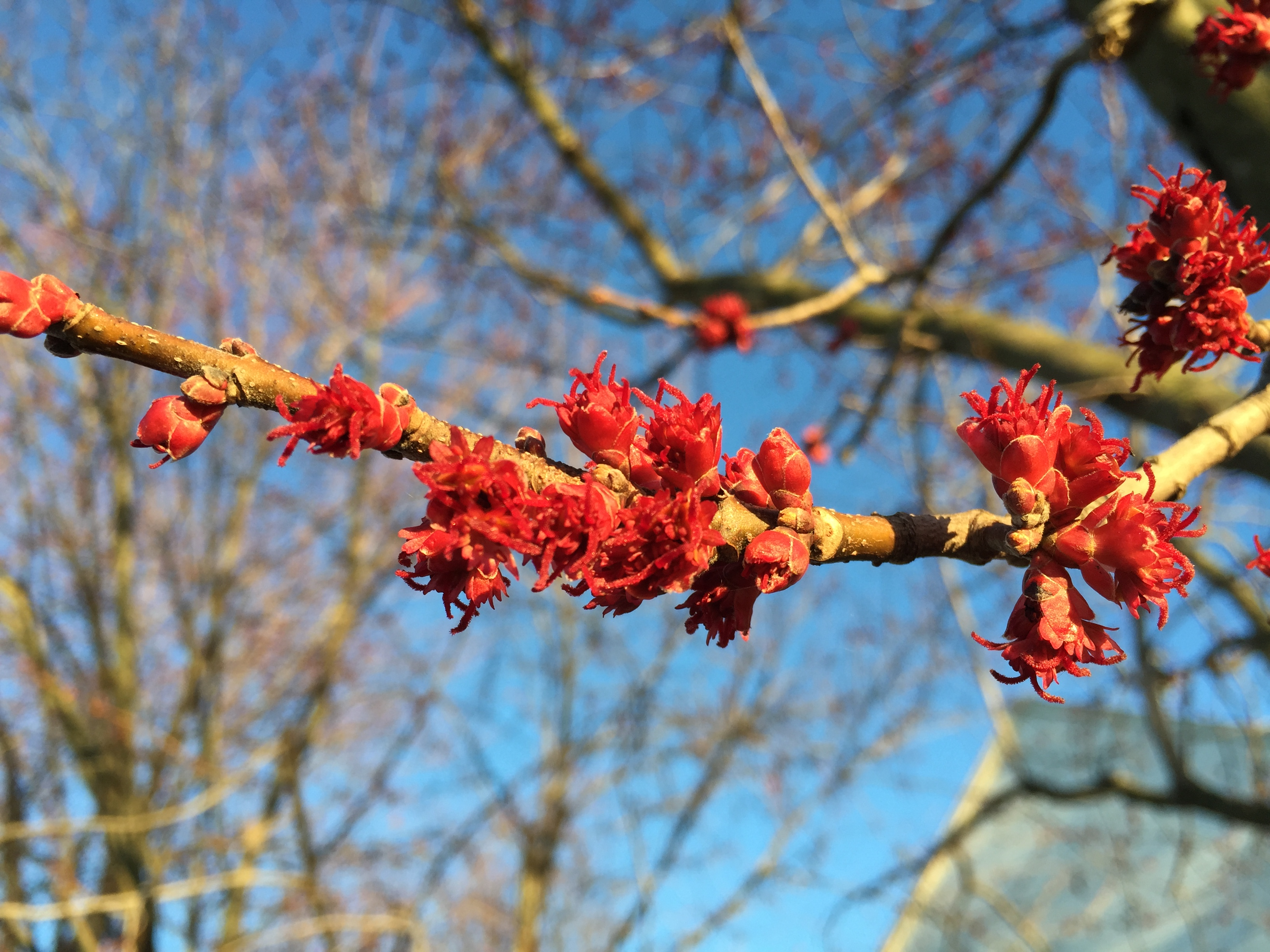 Female Red Maple blossoms along McLearen Road (Virginia State Secondary Route 668) in Oak Hill, Fairfax County, Virginia